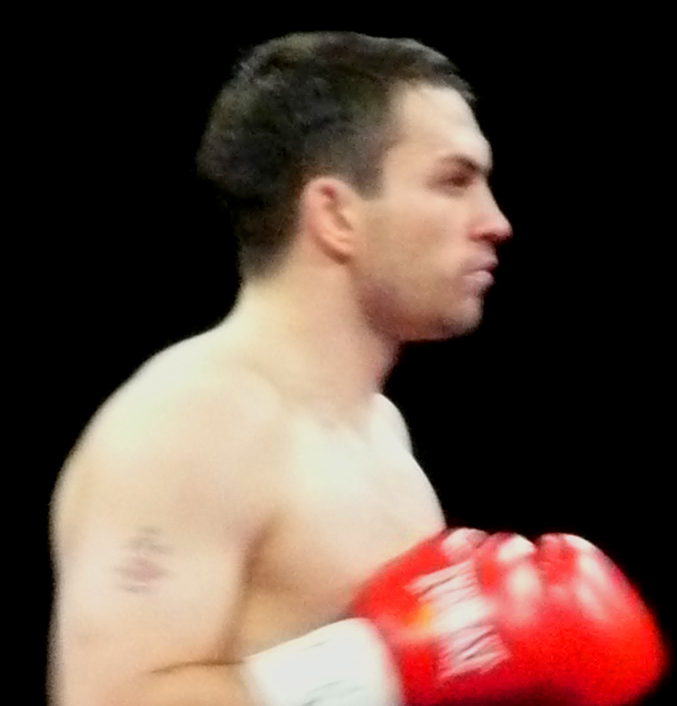 Professional boxer Paul Smith at Wembley Arena.